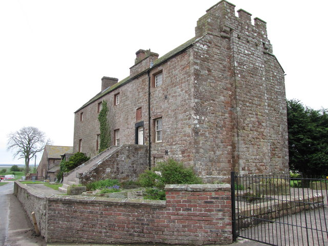 Drumburgh Castle The permanent steps to this "defensible house" were a later addition. Originally there was a retractable ladder making the fortification considerably stronger.